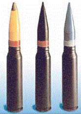 30mm Rounds for the GAU-8 Avenger.